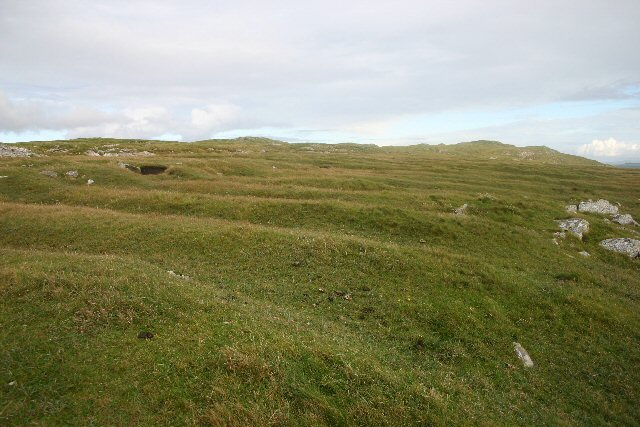 Former cultivation (lazybeds) on Ensay Much of the coastal land shows signs of former cultivation on this now uninhabited island. Ensay, Outer Hebrides, Scotland.